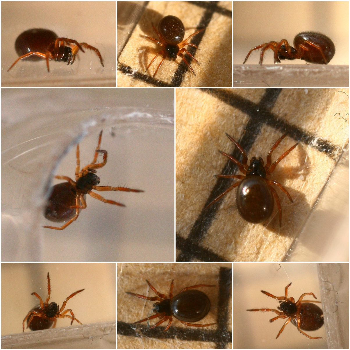 Maso sundevalli (Linyphiidae). Length c.1.8mm. Lots of very long spines on ventral side of first two legs. Trichobothria on metatarsi of 4th leg and (85% along) 1st. Legs orange except darker tarsi on legs 1 & 2.